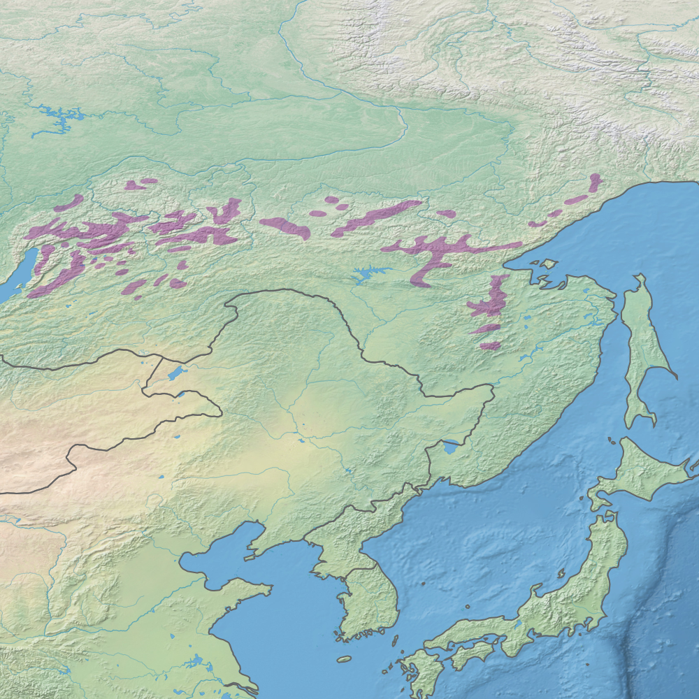 Ecoregion PA1112: Trans-Baikal Bald Mountain tundra (in purple)